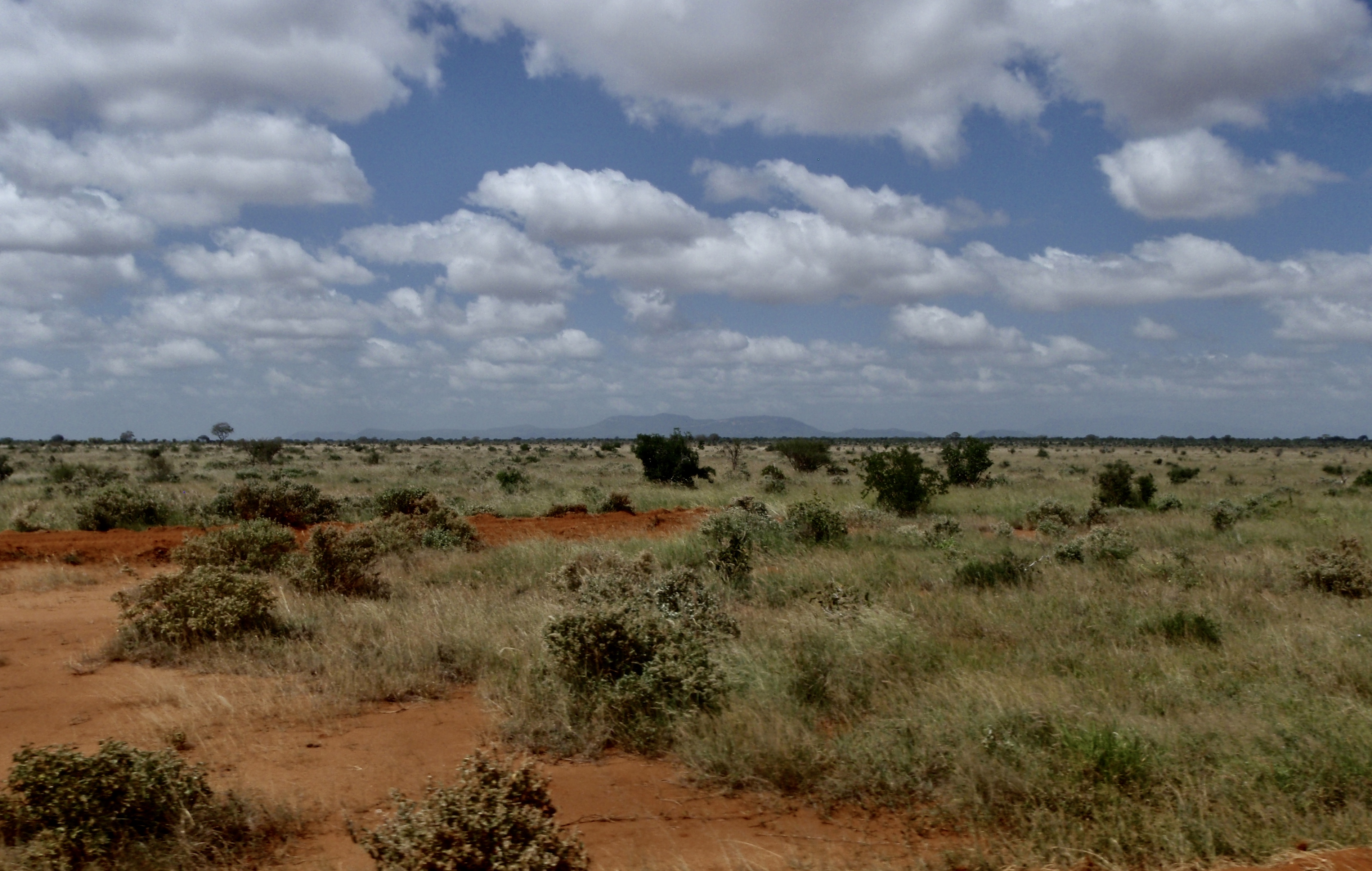 Savanna in Tsavo East National Park, Kenya